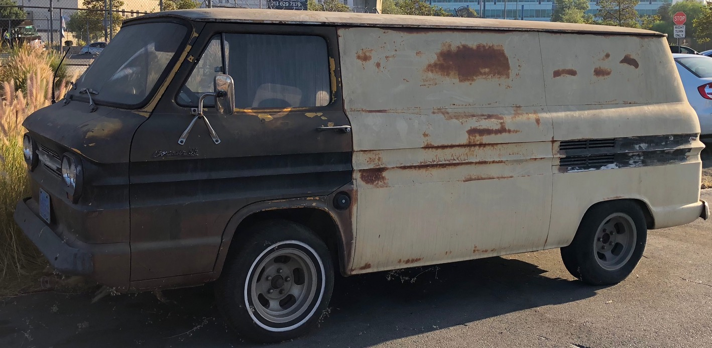 Rare Chevy Greenbrier van